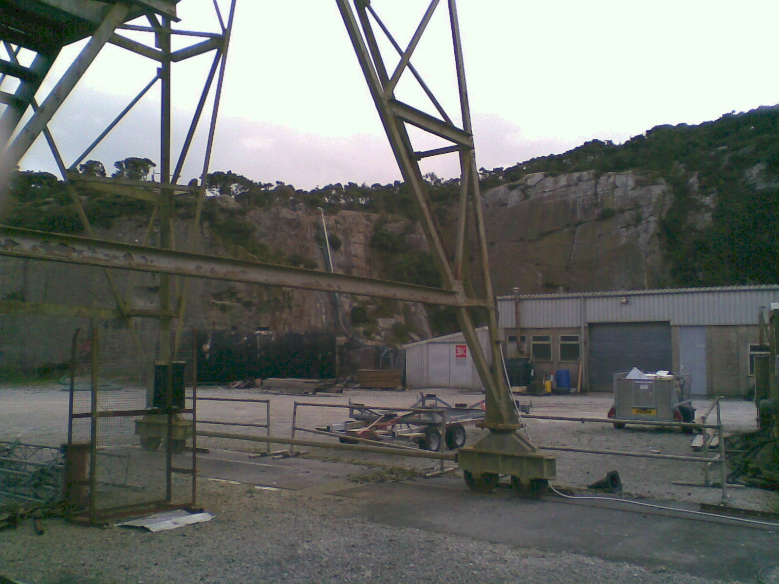 Rosemanowes Quarry, Hernis, Cornwall, site of the Hot Dry Rocks project. Tower wheels.